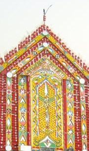 This image is the symbol of the Ndut Ceremony in Senegambia. It is a triagular and heavy object that a chosen one (always a man) carries on his head during the celebration of this ancient Serer ceremony of the boys/men who have been initated. The whole town or village gather to witness this ceremony. This image also appears in Salif Dione's book "L'Appel du Ndut - Ou l'initiation des garcons Seereer". Published by IFAN Cheikh Anta Diop, Dakar. 2004. ISBN: 92 9130 047 0.